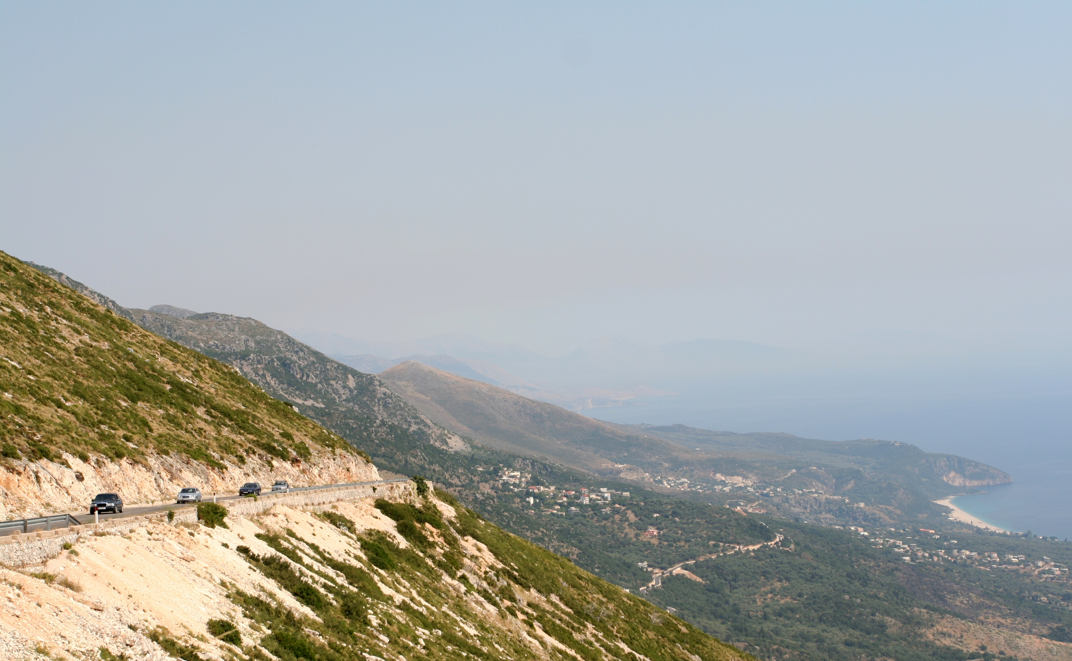 Road on the mountains of the National Park of Llogara looking down on the village of Dhërmi, Himara, Albania